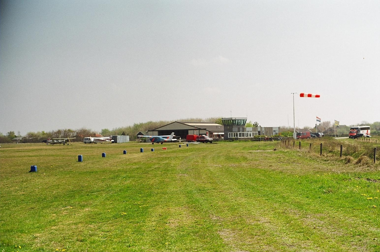 Photo of hangar and tower, taken from Lat +55.4391 Long +5.6836 facing Southeast, on 28/4/2004.